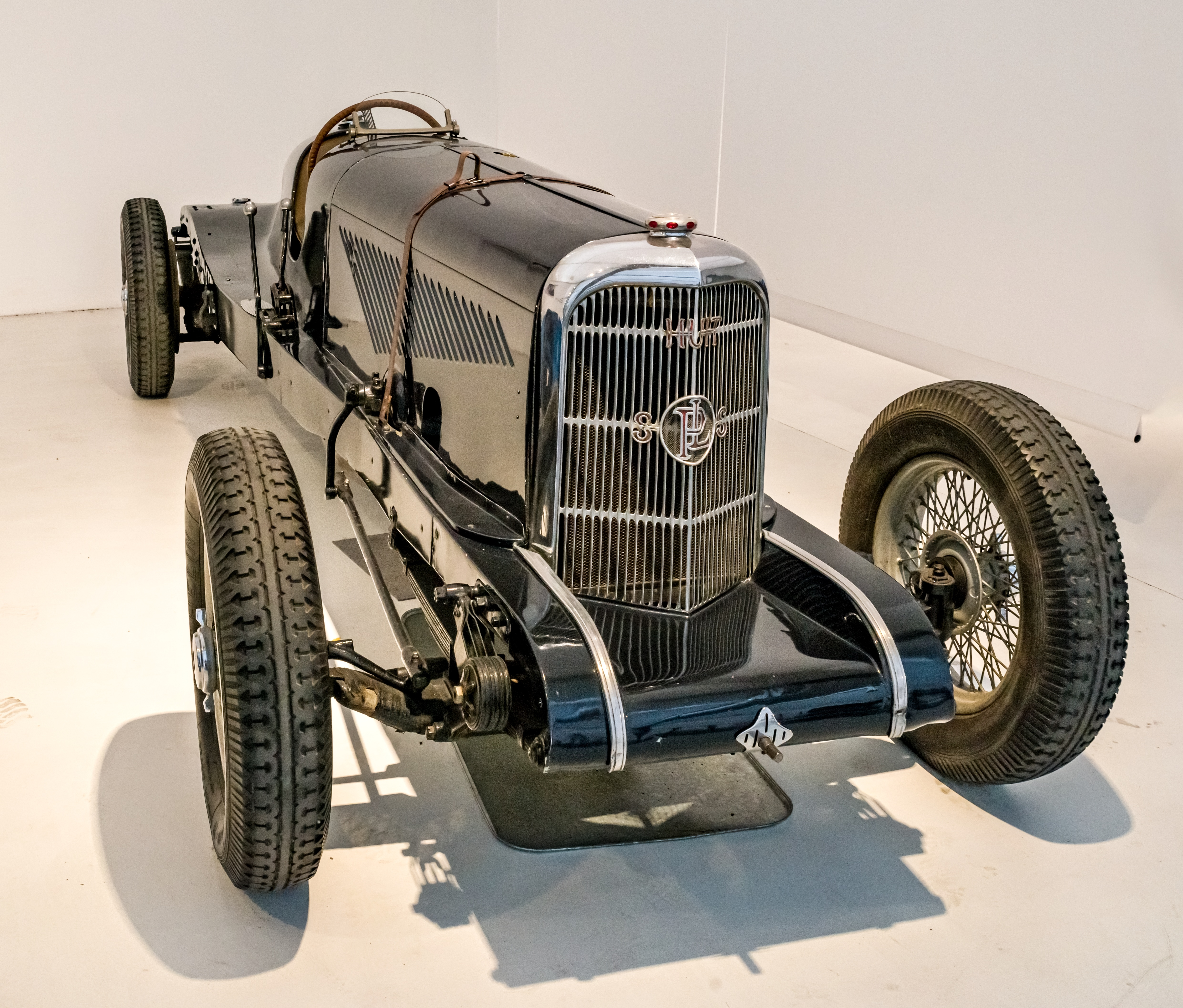 pictures from the Cité de l’Automobile – Musée National – Collection Schlump in Mulhouse, France ptictures from the 10. may 2018